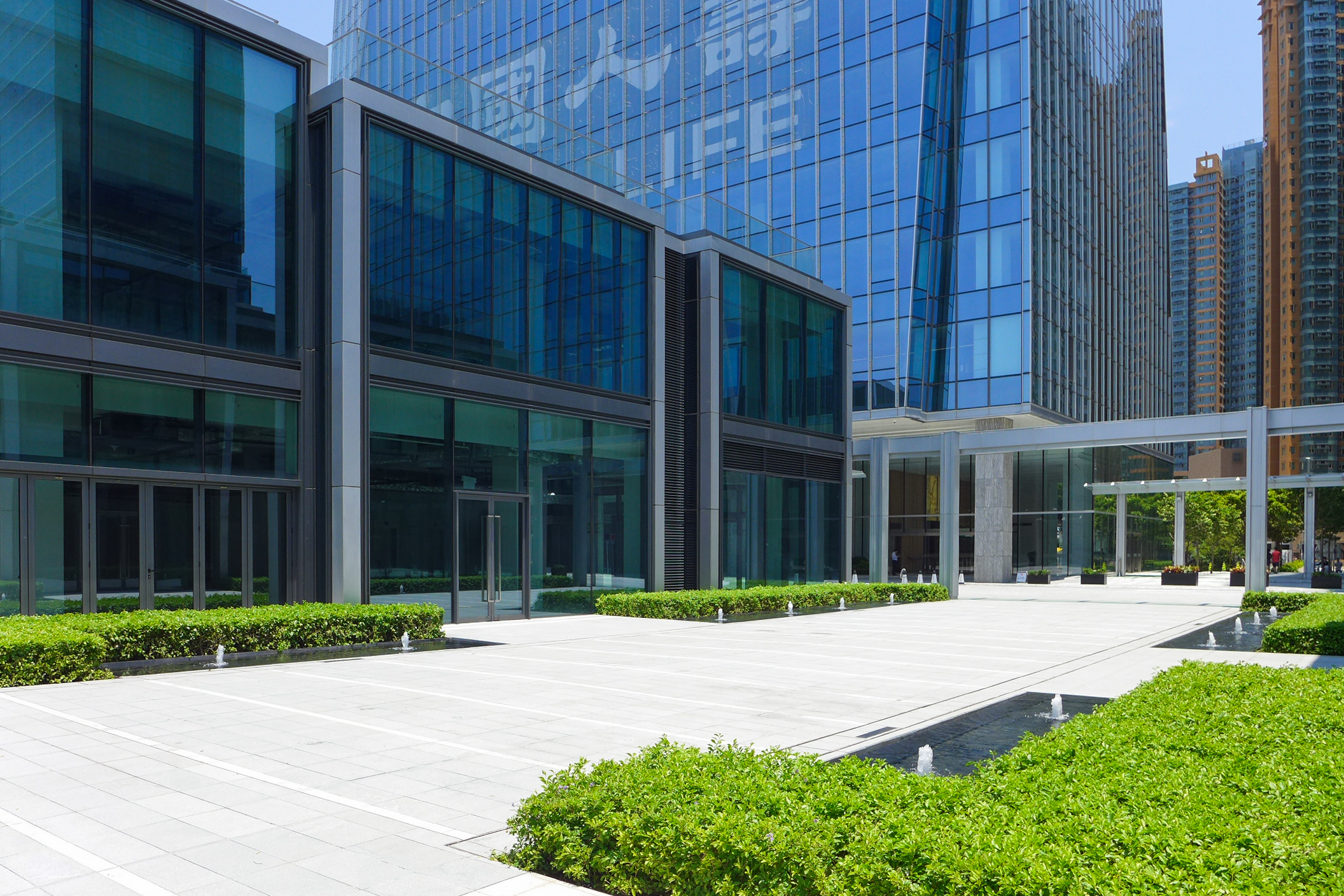 One HarbourWalk vacant shops